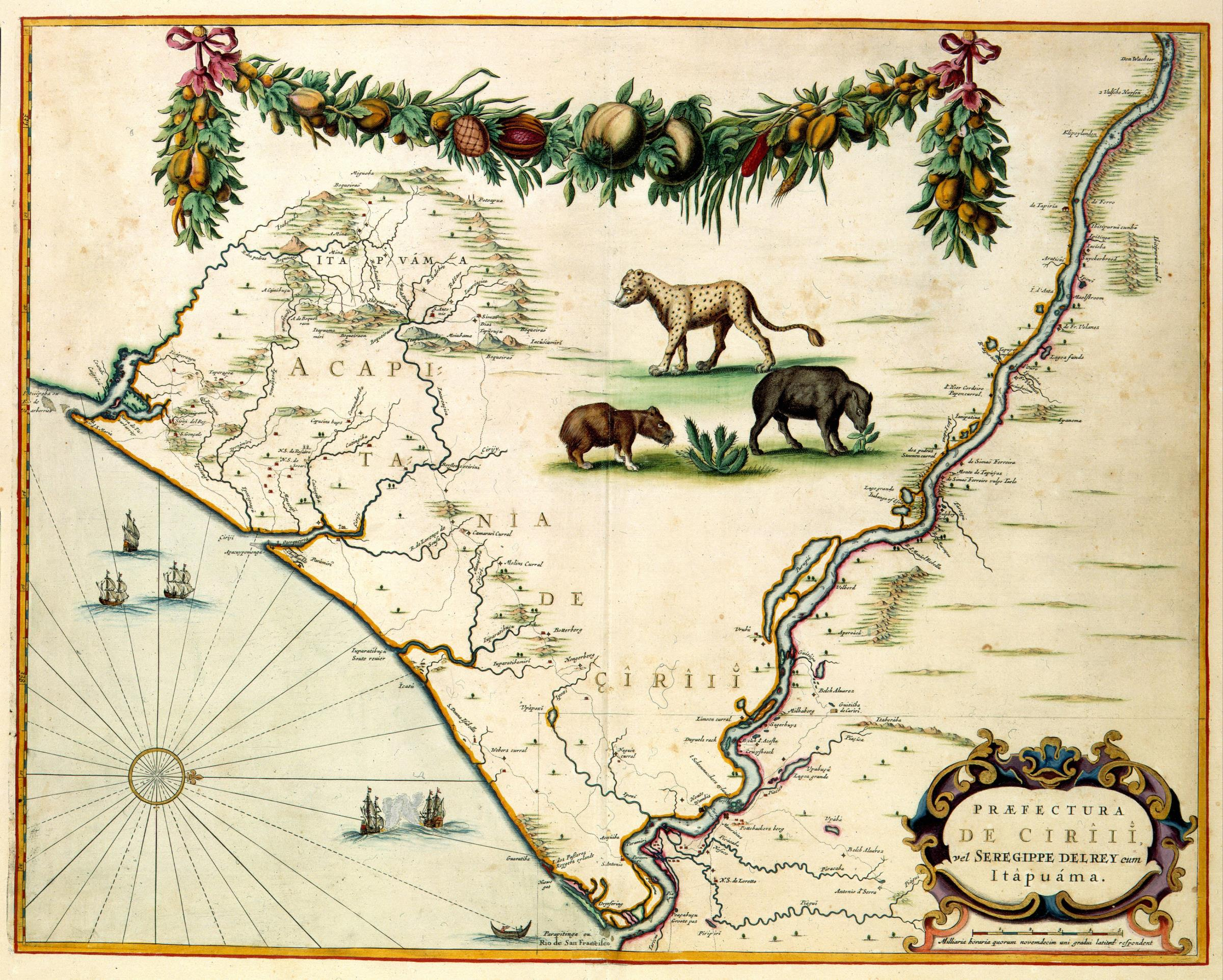 Map of the area stretching from Seregipe del Rey to Itapuama. Praefectura de Ciriii vel Seregippe Delrey cum Itapuama. Between 1630 and 1654 large parts of Brazil were occupied by the Dutch. During this period the area was mapped by the cartographers Cornelis Goliath (died in 1667/1668) and Georg Marcgraf. In 1643 they rendered the results of these mapping activities in an attractive wall chart. Joan Blaeu (1598-1673) published this atlas chart based on the wall map in 1662. Several East Indiamen are shown lying at anchor off the coast. This chart may be linked to the maps: Koninklijke Bibliotheek, The Hague, inv. nr. 1049B13_095; Ibid, inv. nr. 1049B13_096; Ibid, inv. nr. 1049B13_09. The chart was previously published in: C. Barlaeus, Rerum per octennium in Brasilia, Amsterdam 1647. Cf. Koninklijke Bibliotheek, The Hague, inv. nr. 1043 B 14, after p. 28.